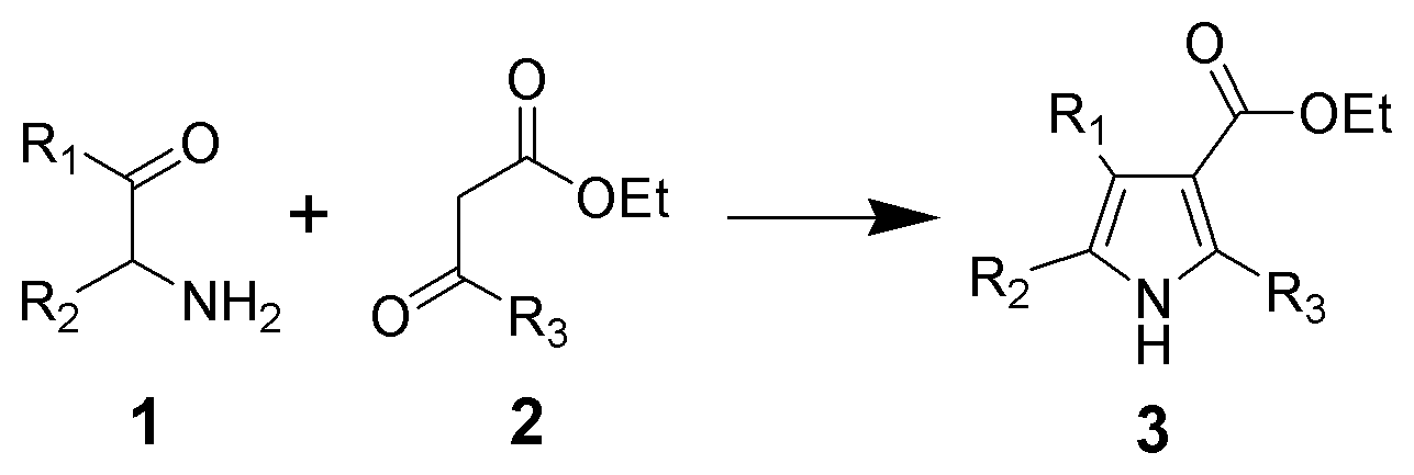 Description: Reaction scheme of the Knorr pyrrole synthesis. Author, date of creation: selfmade by ~K, 11 September 2005. Source: - Copyright: Public domain. (PD) Comments: high-resolution b/w PNG; ChemDraw / The GIMP.